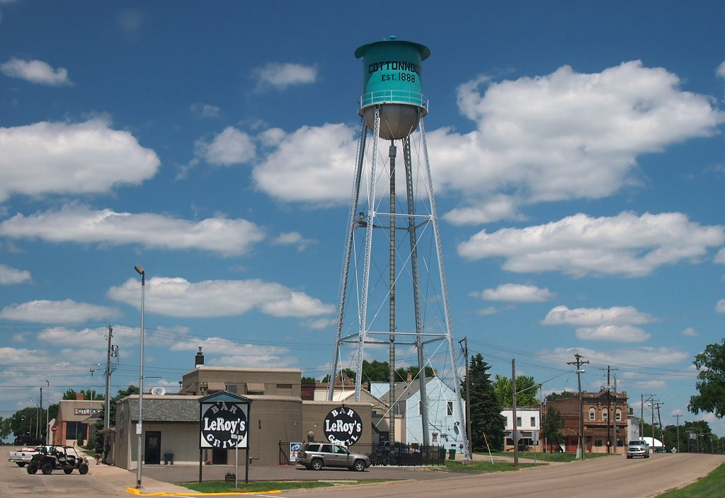 View north-northeast from County Highway 9 and W 1st St, Cottonwood, Minnesota, USA